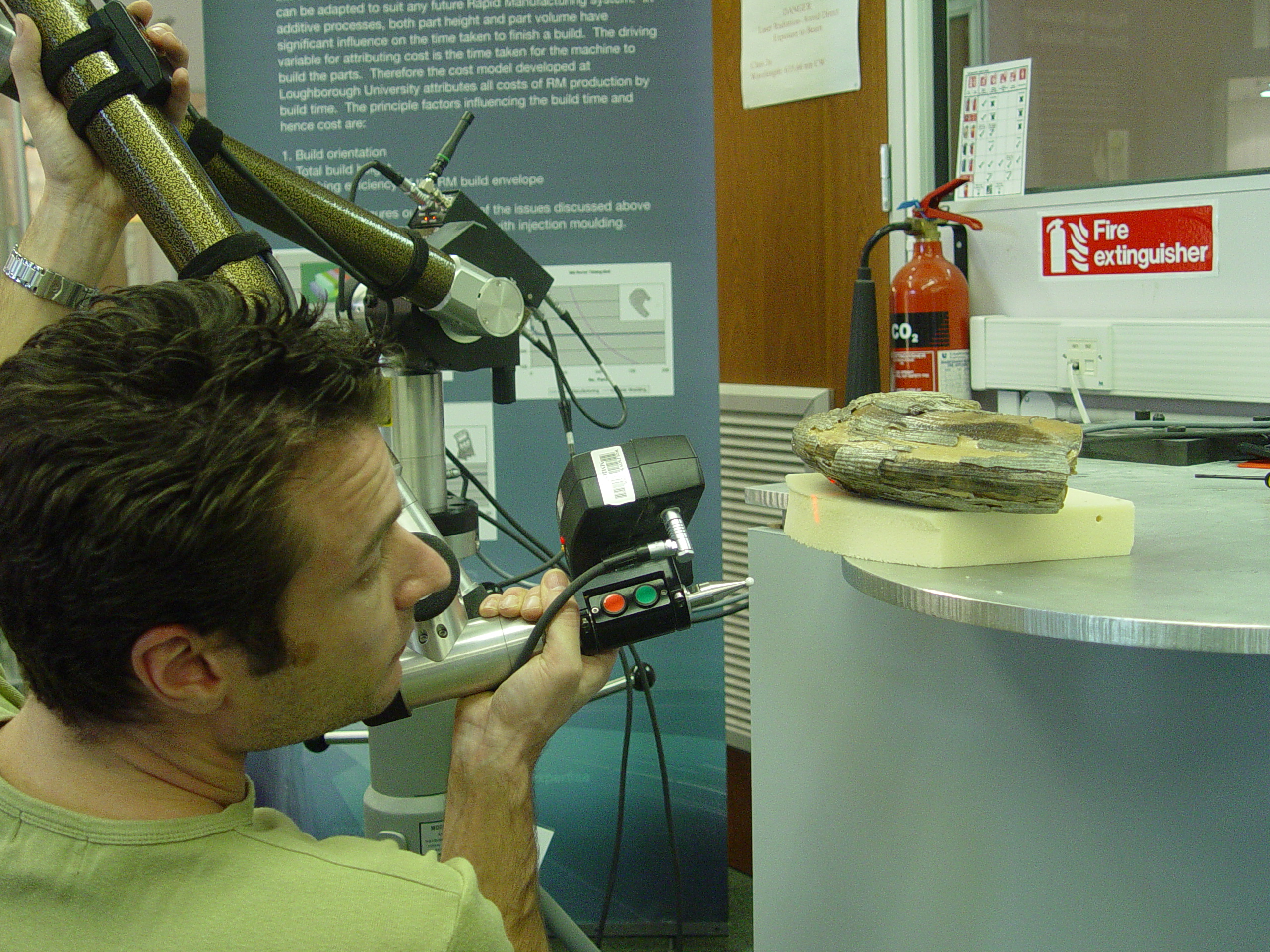 Laser scanning of a fossil Hippopotamus tooth at Loughborough University, England. The tooth (a canine) was from a specimen discovered in river terrace gravels of Quaternary age near Derby in the late 19th century. Known as "The Allenton Hippo" it is now on display at Derby Museum and Art Gallery. It was being scanned in order to make a metal reproduction for a piece of public realm sculpture, by artist Michael Dan Archer.